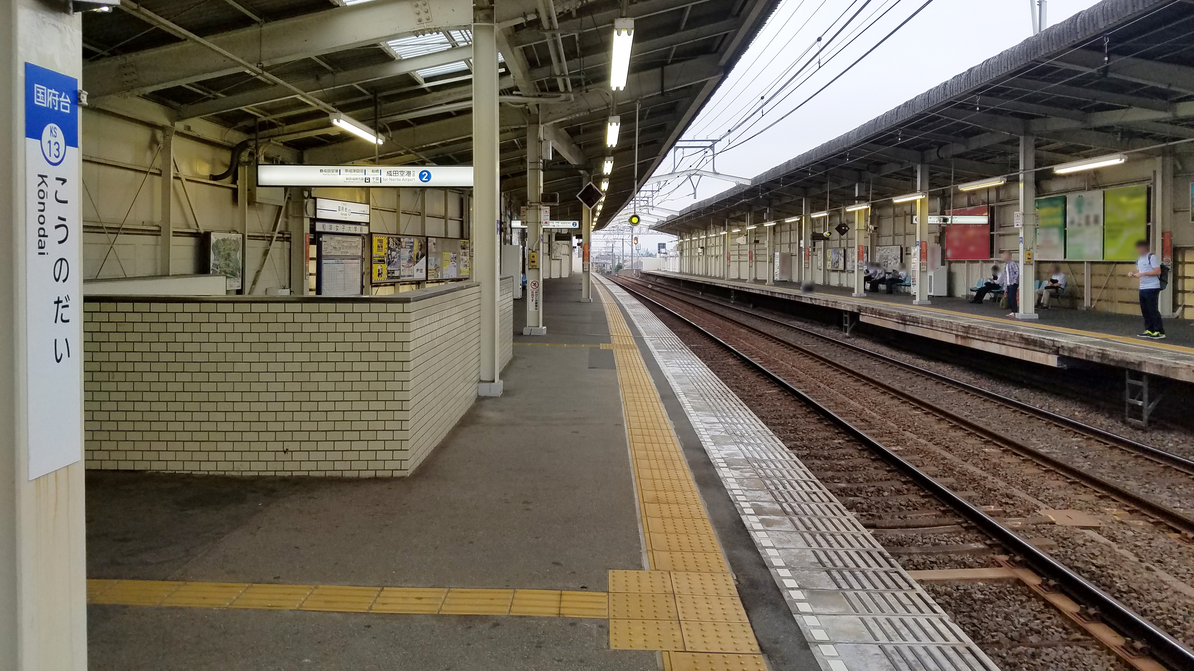 The platforms at Kōnodai Station on the Keisei Main Line in Ichikawa city, Chiba prefecture, Japan